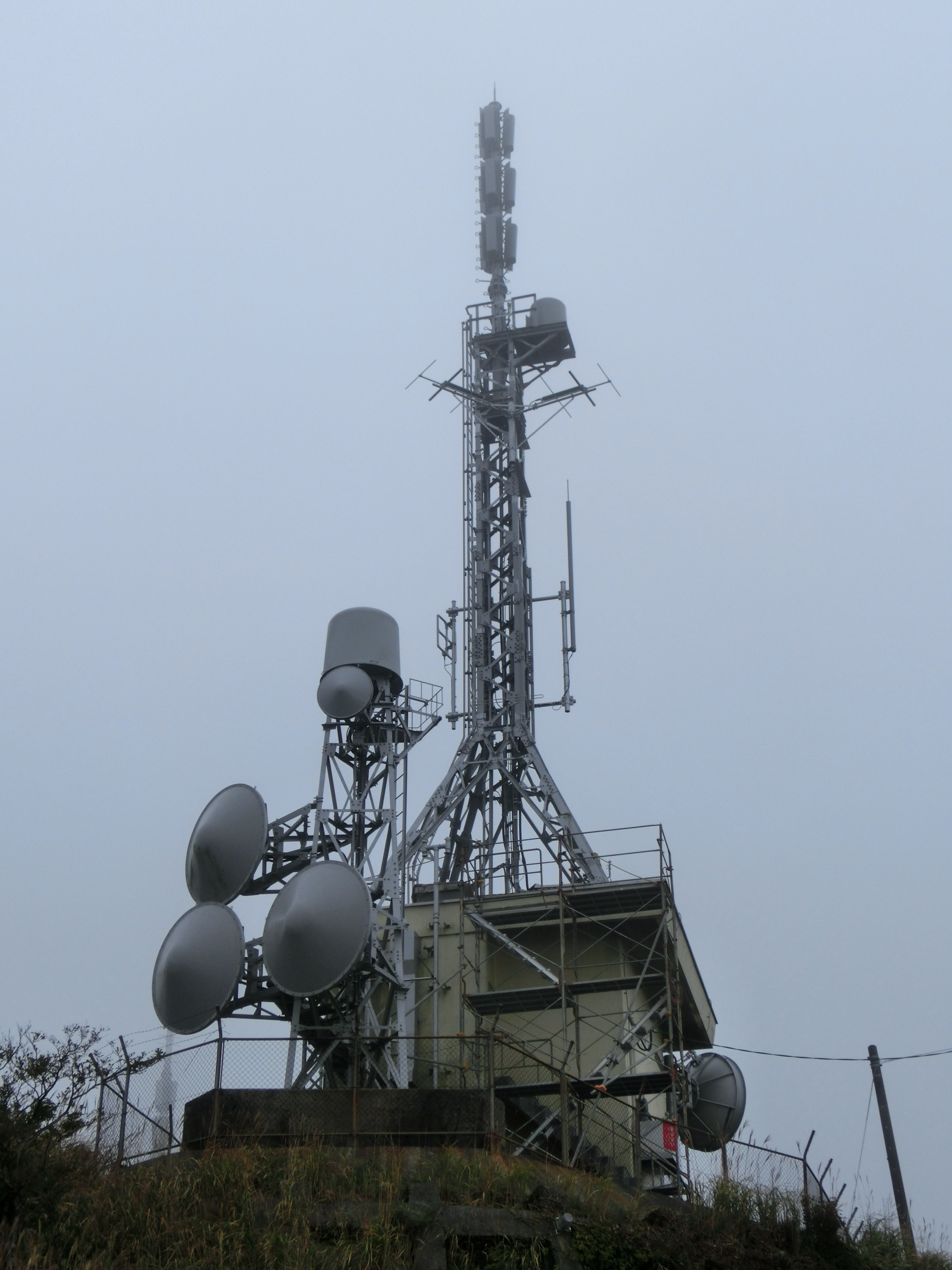 NHK Kagoshima Akune (Digital TV) and Sendai-Izumi (Radio 1) Relay Station (Mt. Shibisan - Kagoshima Prefecture, Japan)